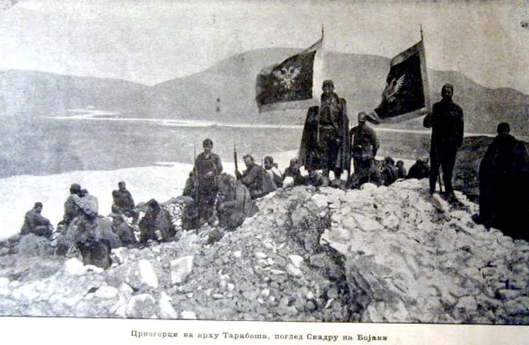 Montenegrin flags on the Tarabosh hight near Scutari, 1913